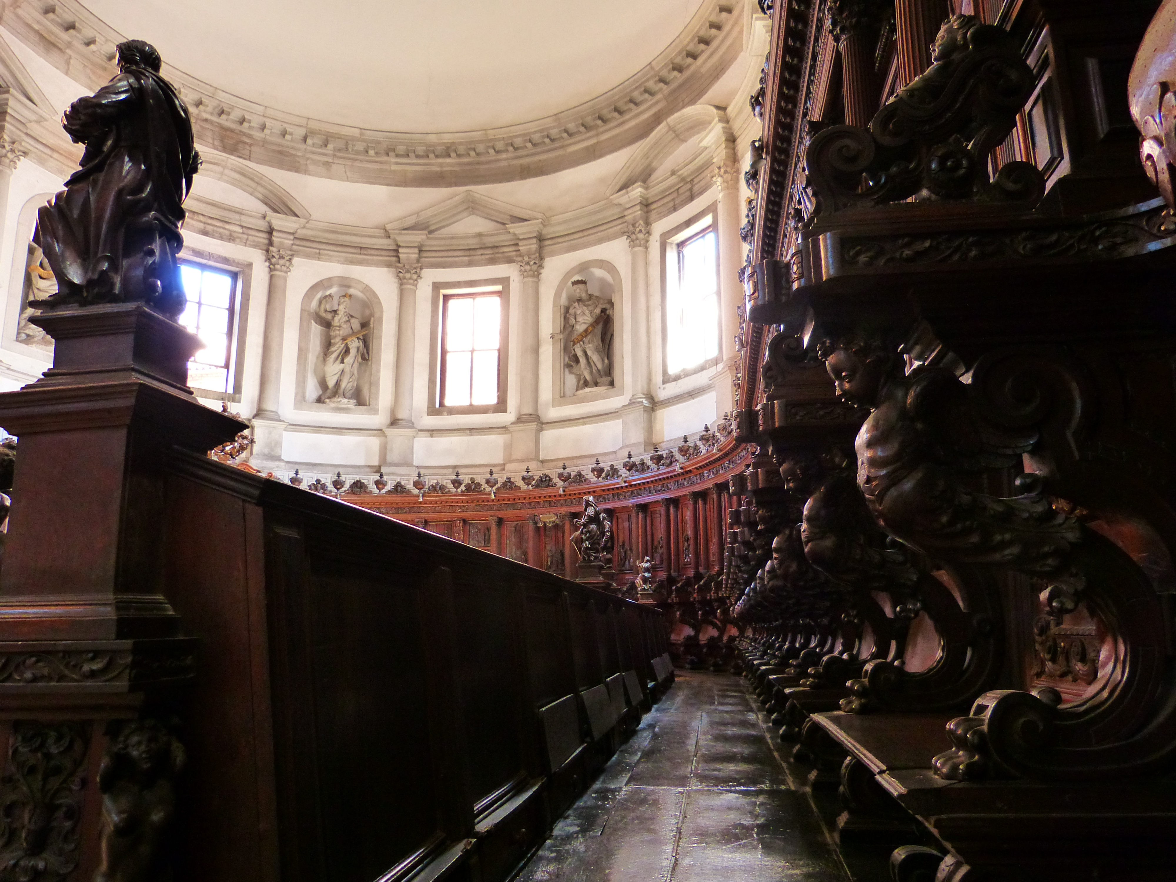 Choir stalls in San Giorgio Maggiore church, Venice